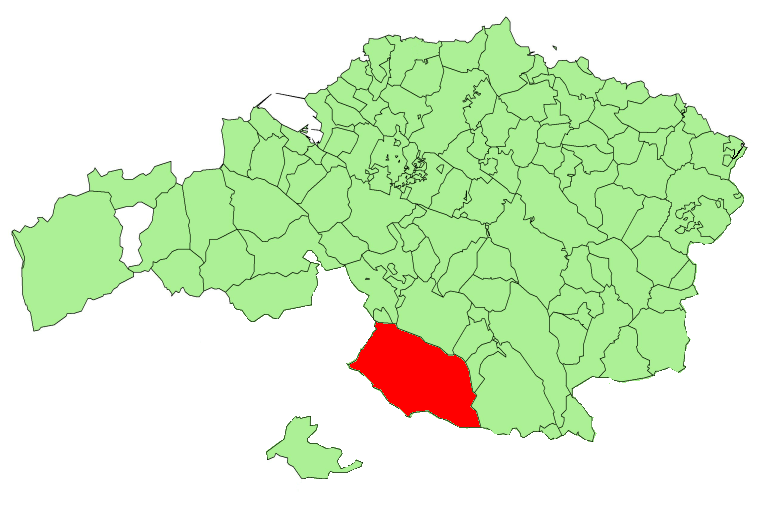 Orozko municipality in the province of Biscay